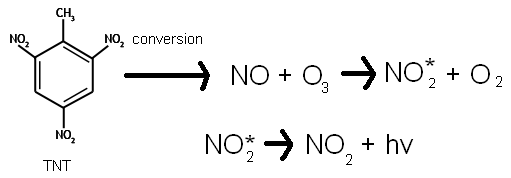 Chemiluminescence (sometimes "chemoluminescence") is the emission of light (luminescence) without emission of heat as the result of a chemical reaction.